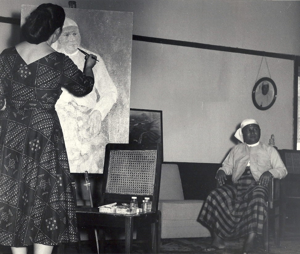 Anna Walinska painted several portraits of Burmese Prime Minister U Nu over several sittings in 1954-1955